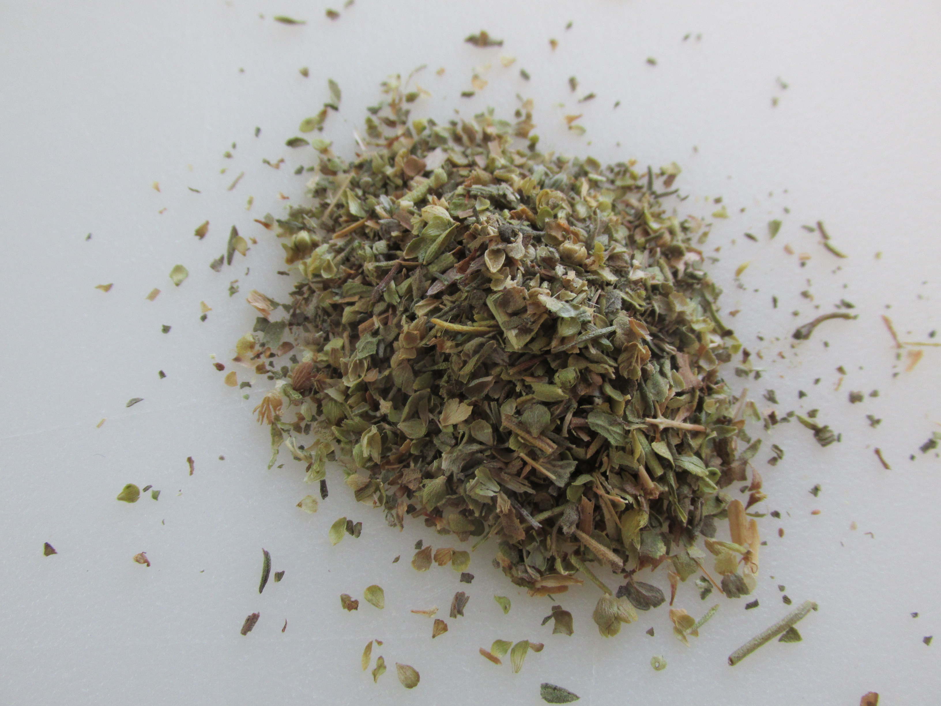 Italian Herb Mix, Penzeys Spices, Arlington Heights Massachusetts